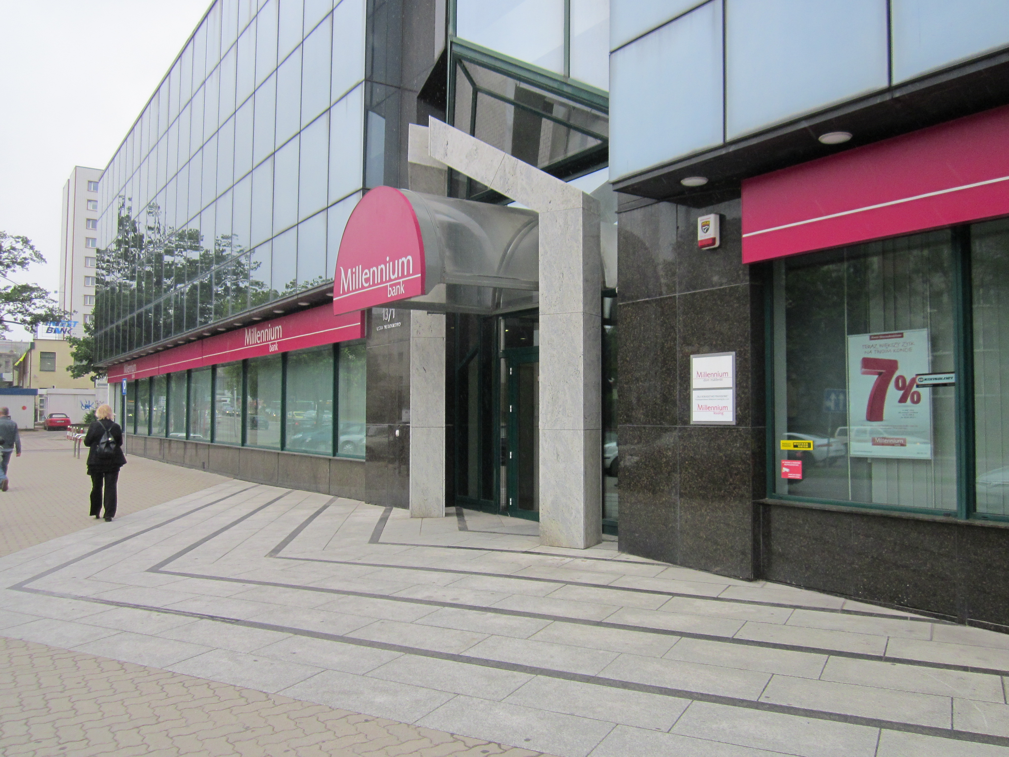 Bank Millennium, Branch No. 3 in Białystok, at 13/1 Piłsudskiego street.